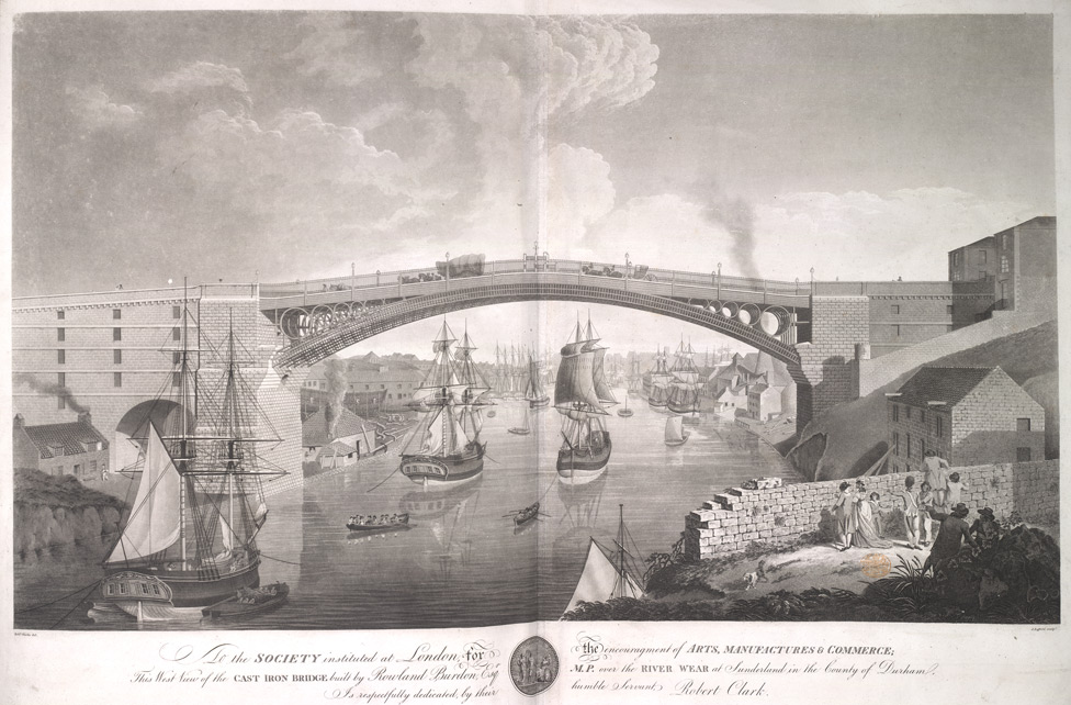 Engraving dated 1796 from King George III Topographical Collection online exhibition of the British Library.